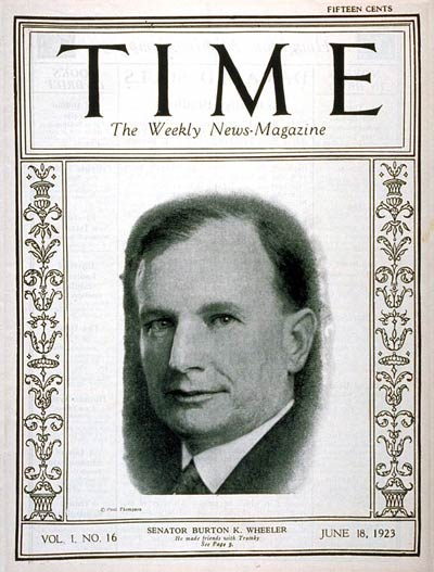 TIME Magazine Cover Featuring Burton K. Wheeler (18 Jun 1923)